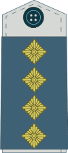 Rank insignia of the Armed forces of Serbia and Montenegro, here "Captain first class" (OF-2f) – shoulder strap Air – and Air defence forces (Air Force).